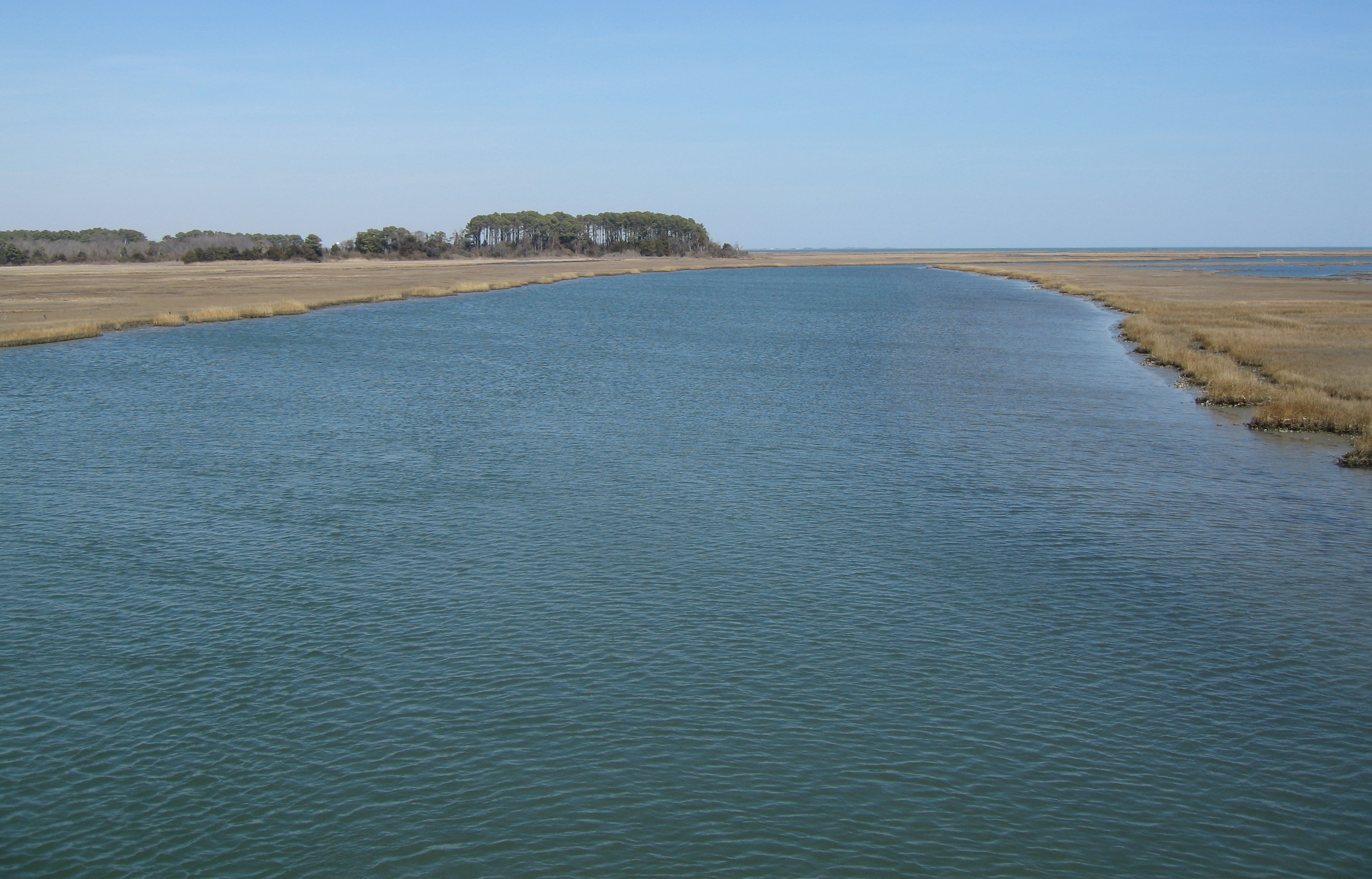 Mosquito Creek in Chincoteague, Virginia. Picture taken from the John B. Whealton Memorial Causeway.